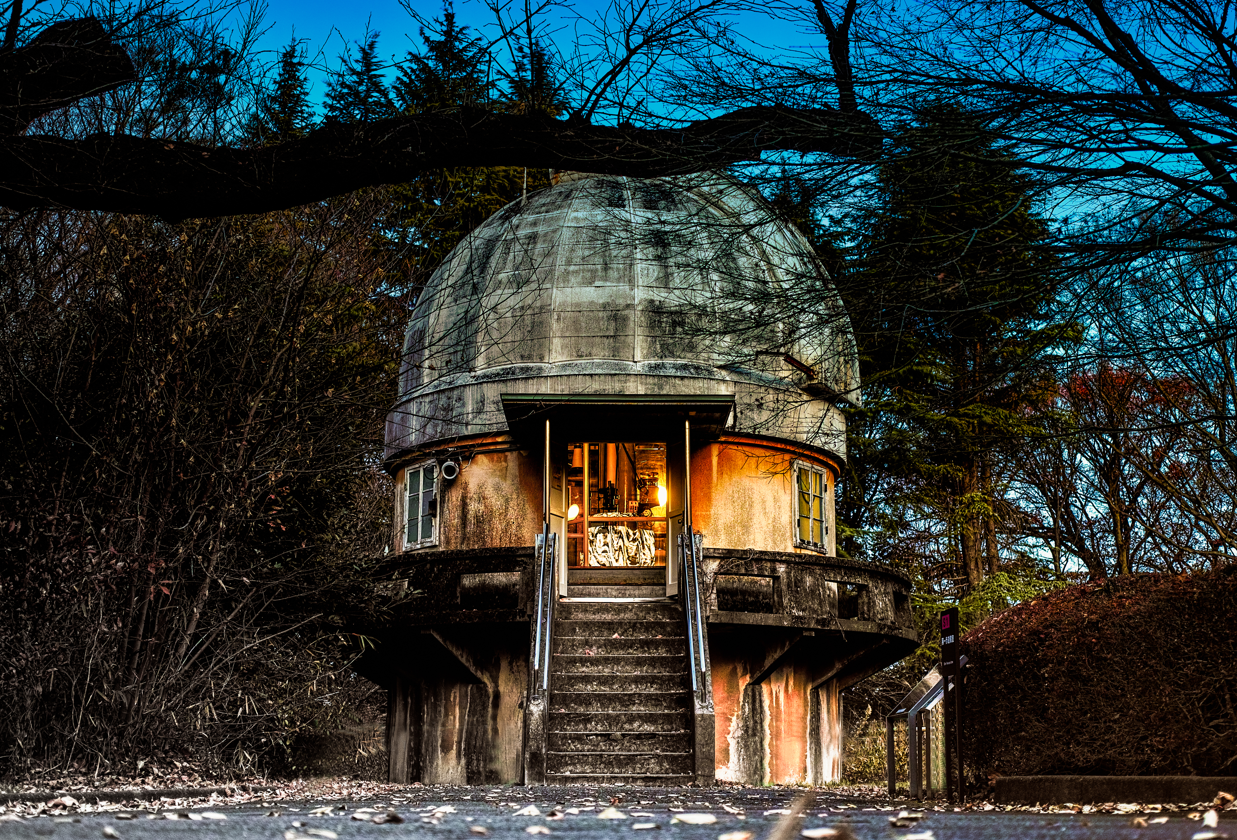 A Equatorial Mount at Mitaka Campus of National Astronomical Observatory of Japan installed in 1921